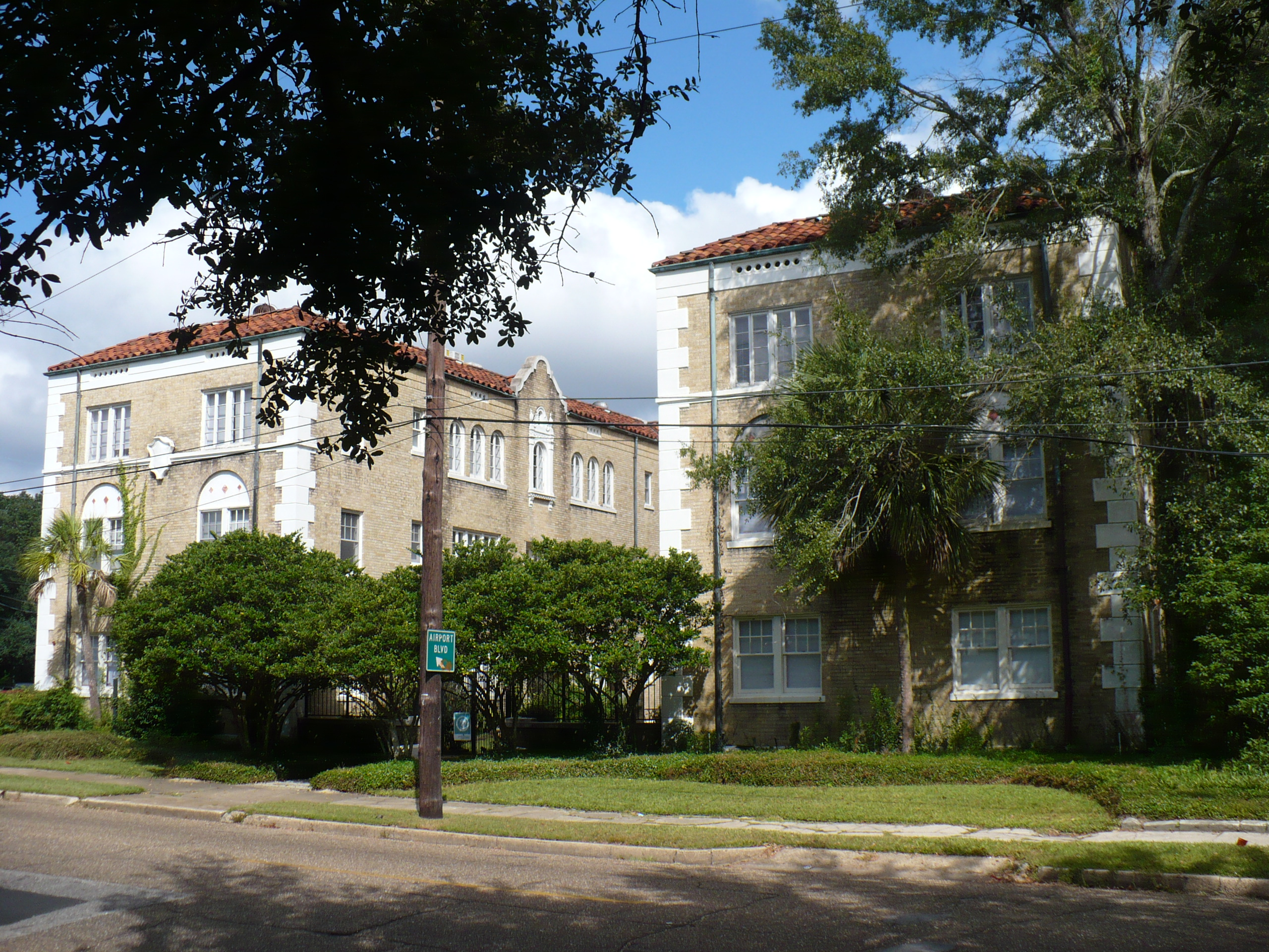 Azalea Court Apartments in Mobile, Alabama. An example of Spanish Colonial Revival architecture of the Central Gulf Coast of the United States. Individually listed on the National Register of Historic Places.